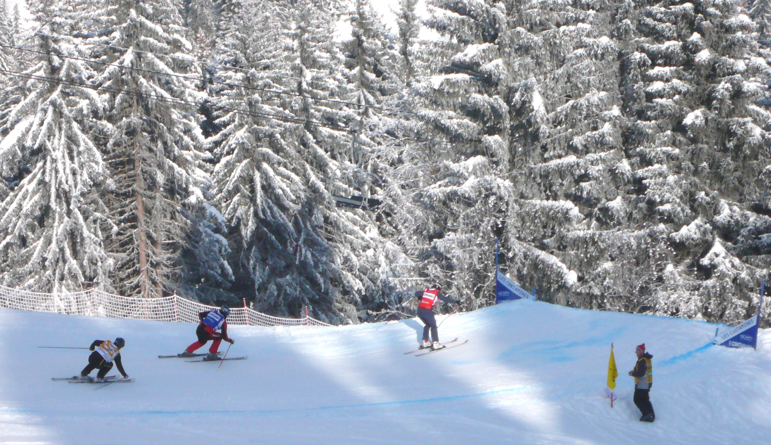 Ski Cross World Cup at Les Contamines-Montjoie, 1/4 final: Casey Puckett, Stanley Hayer, Patrick Gasser.